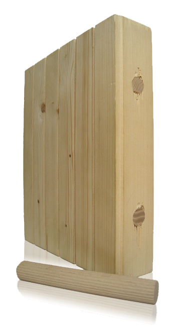 An 80mm thick section of Exposed grade Brettstapel with shadow gap detailing and hardwood dowel.